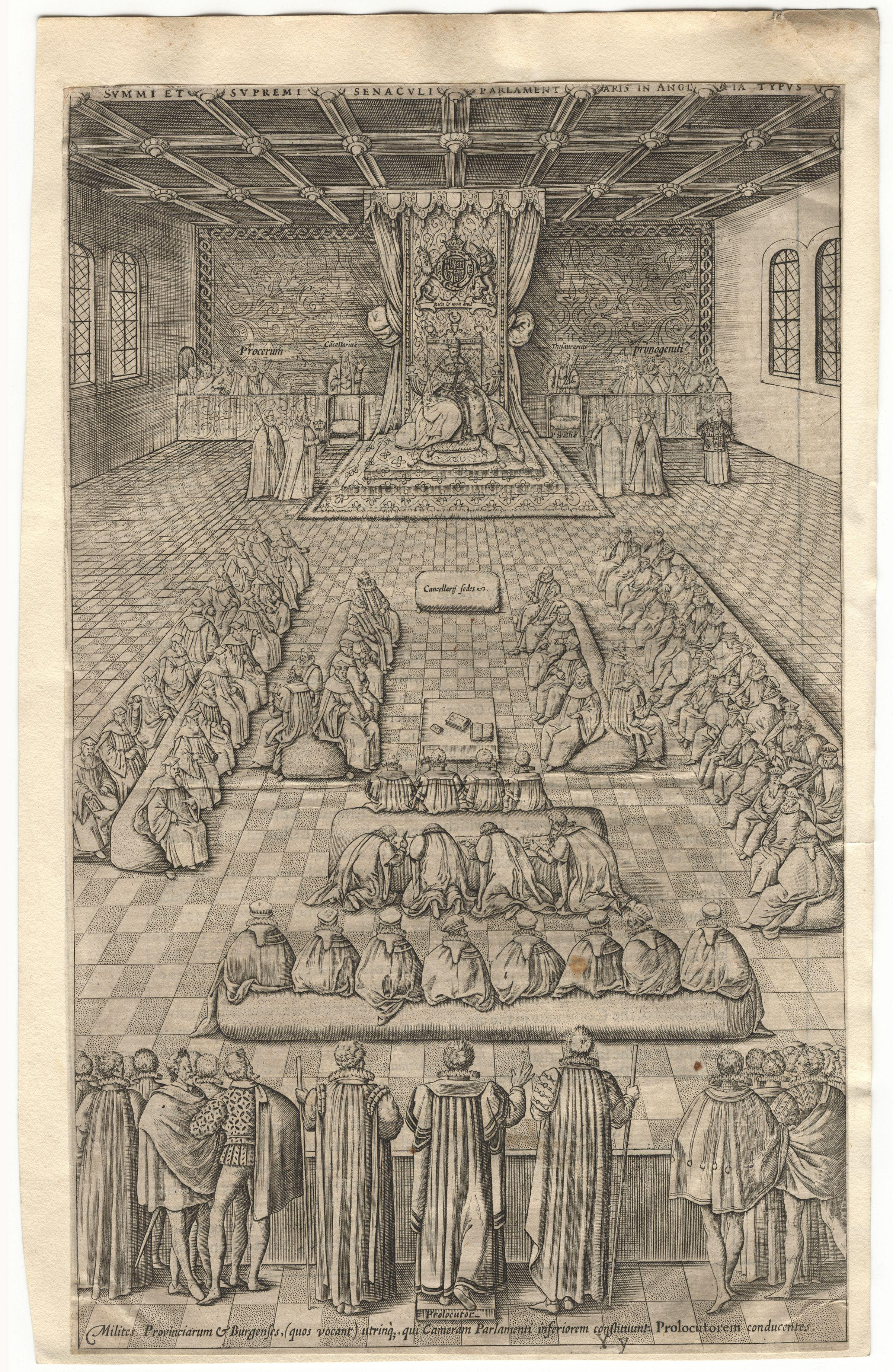 King James I of England and VI of Scotland in Parliament, by Renold or Reginold Elstrack (Elstracke), published 1608. According to the NPG's website the work was published prior to 1859, and so the author is reasonably presumed dead by 1939.